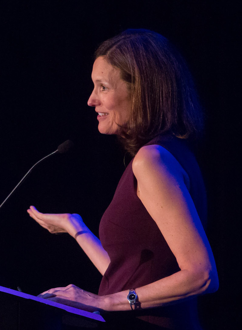 Photograph of chemist Ann E. Weber, 12 September 2017, recipient of the SCI Perkin Medal at the Chemical Heritage Foundation.